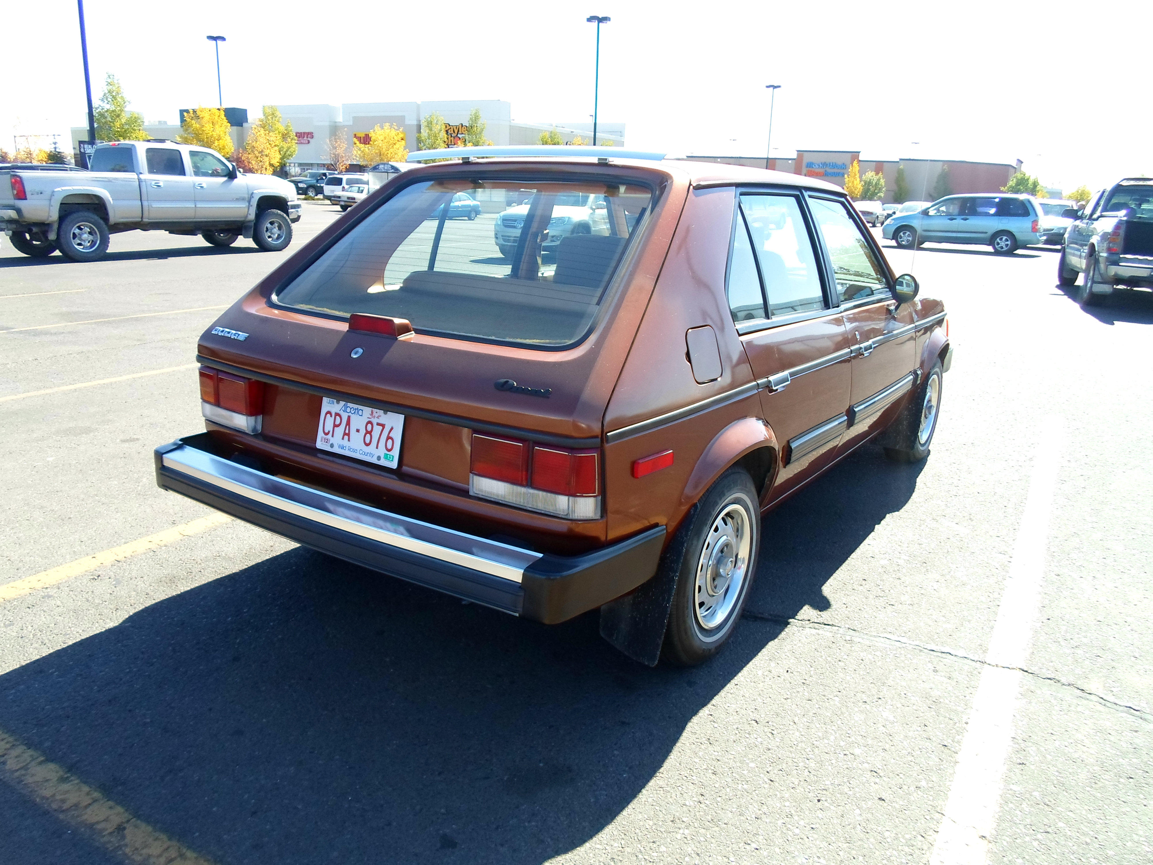 A later model Dodge Omni in brown